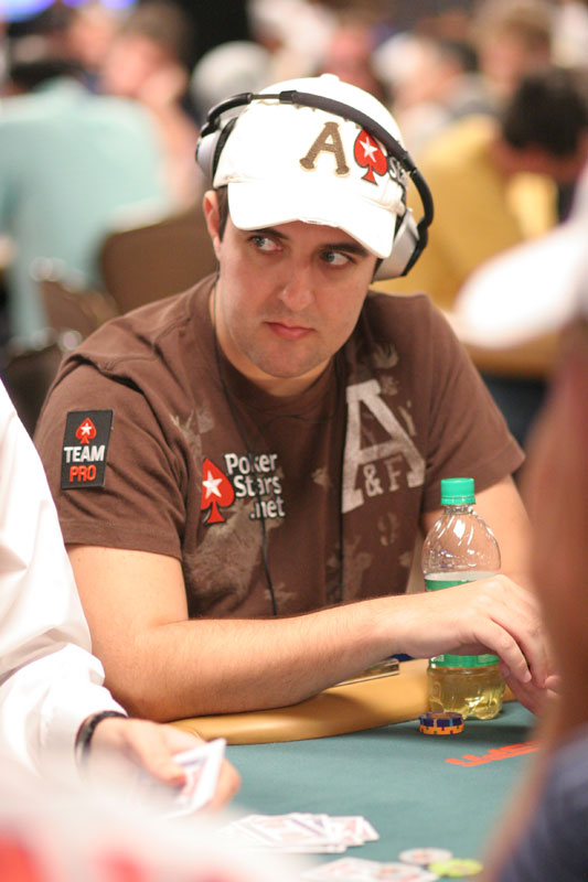 Brazilian poker player Andre Akkari during World Series of Poker, 2008